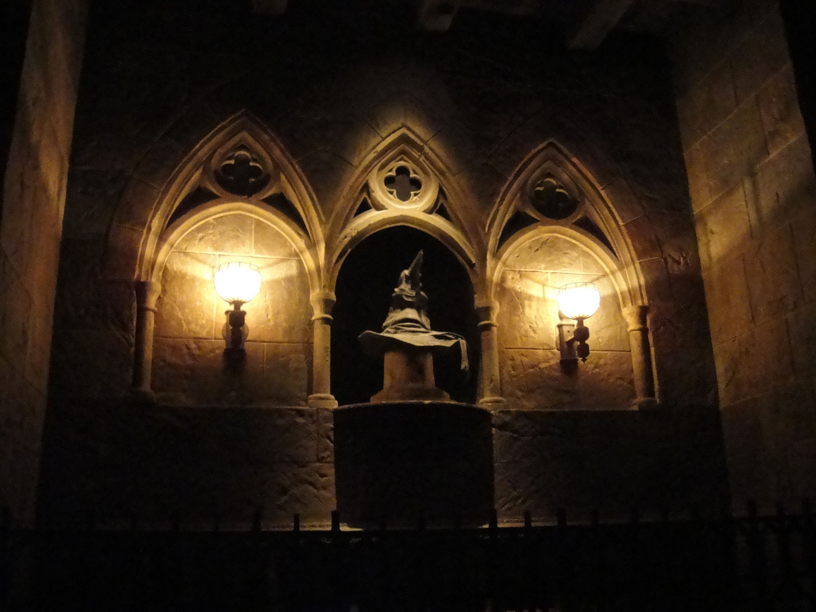 Wizarding World of Harry Potter - the sorting hat